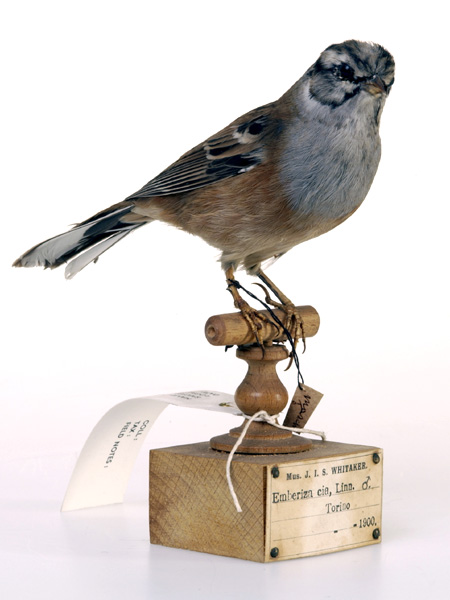 Rock Bunting Emberiza cia